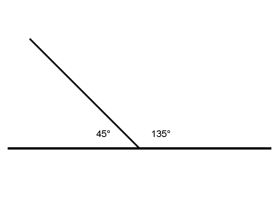 Supplementary angles